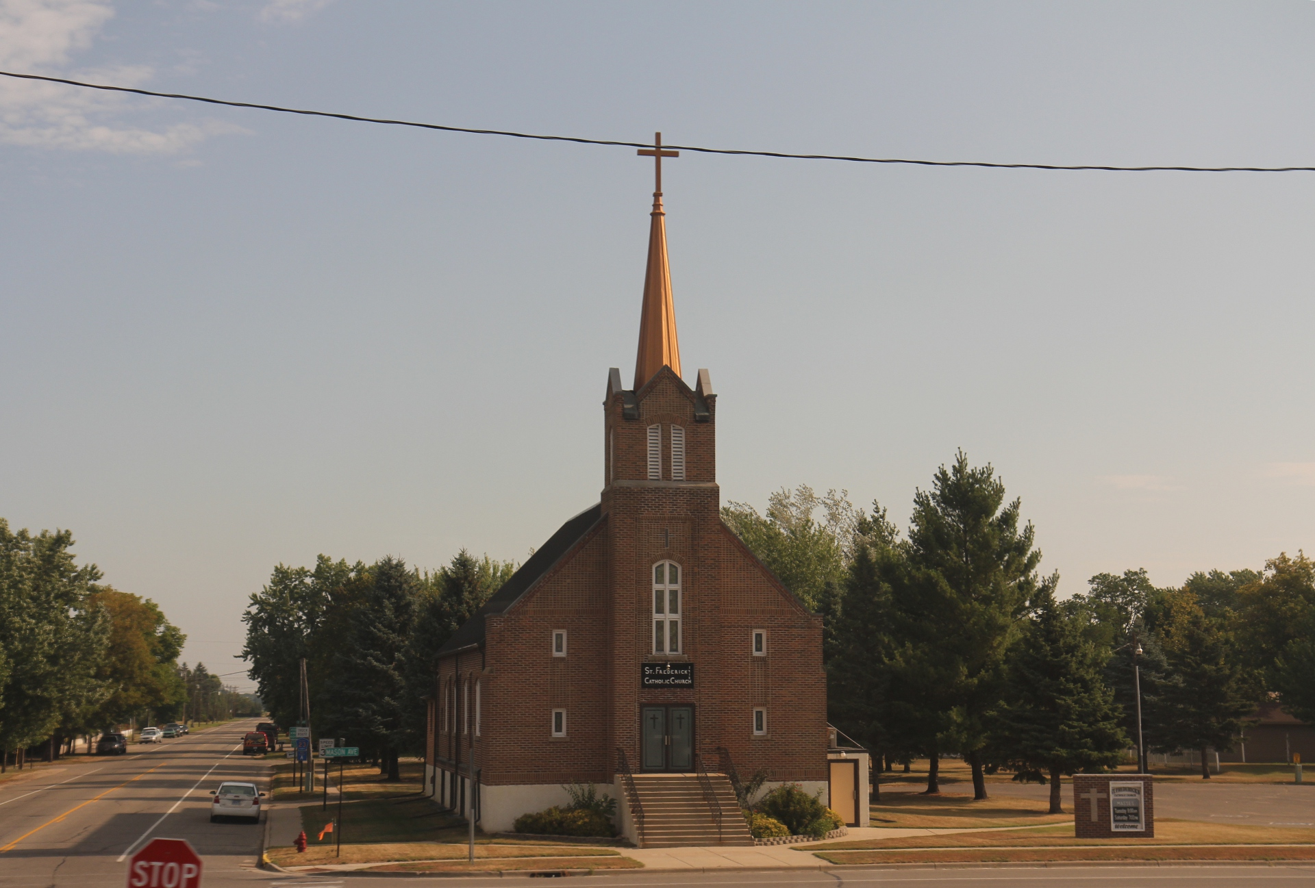 St. Frederick Catholic Church in Verndale, MN from the Empire Builder.